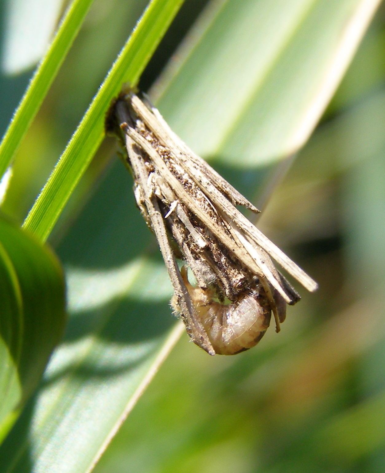 Psyche casta (Psychidae) female in calling position. ID Patrice Chatard.